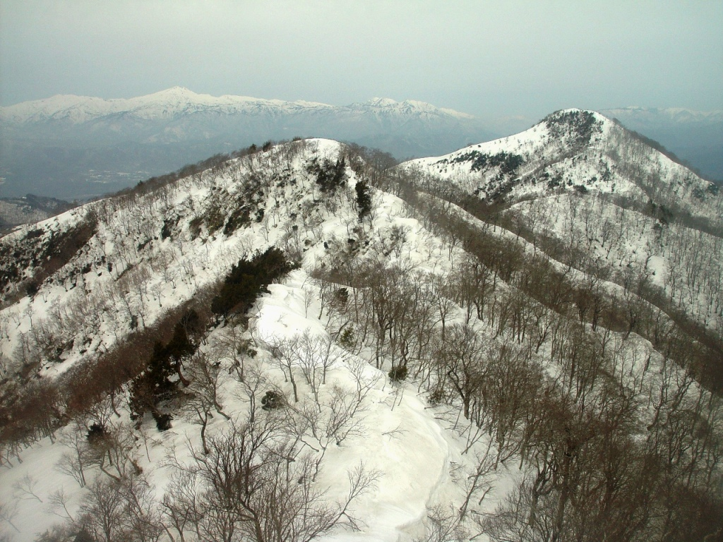 Mount Washi (Washigatake) and Mount Haku seen from Mount Shirao, Gifu prefecture, Japan.